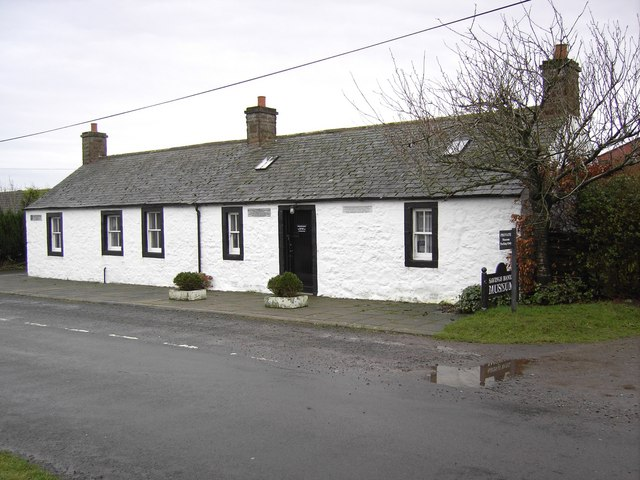 Ruthwell Savings Bank Museum, Dunfries and Galloway, Scotland